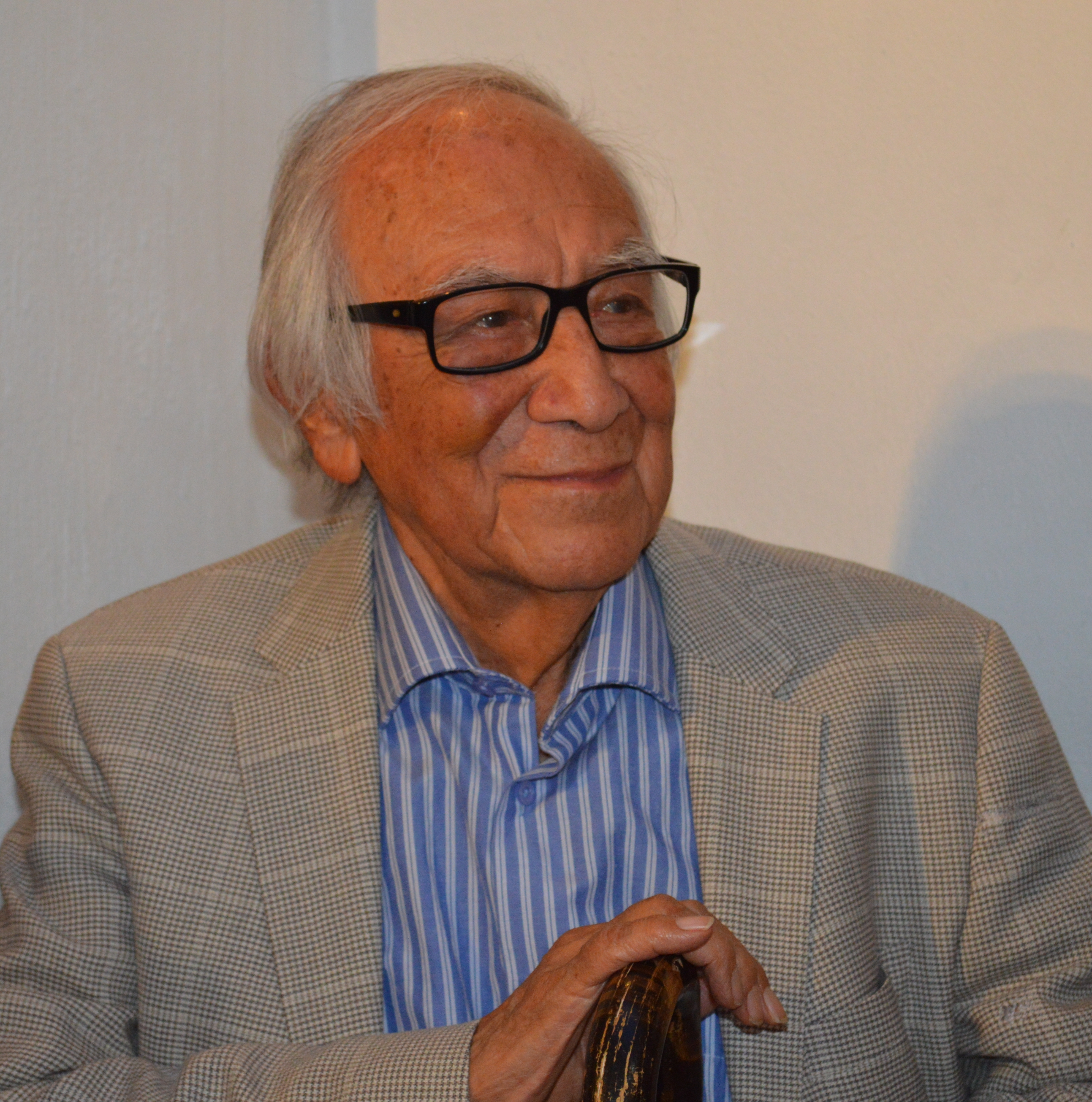 Arturo Garcia Bustos at the opening of the exhibition of work by Angelica Carrasco, John McGee and Juan Manuel Salazar at the Salon de la Plastica Mexicana in Mexico City